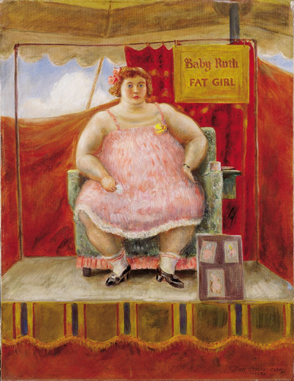 Baby Ruth by John Steuart Curry, 1932, oil on canvas, 25.75 x 20 inches, Brigham Young University Museum